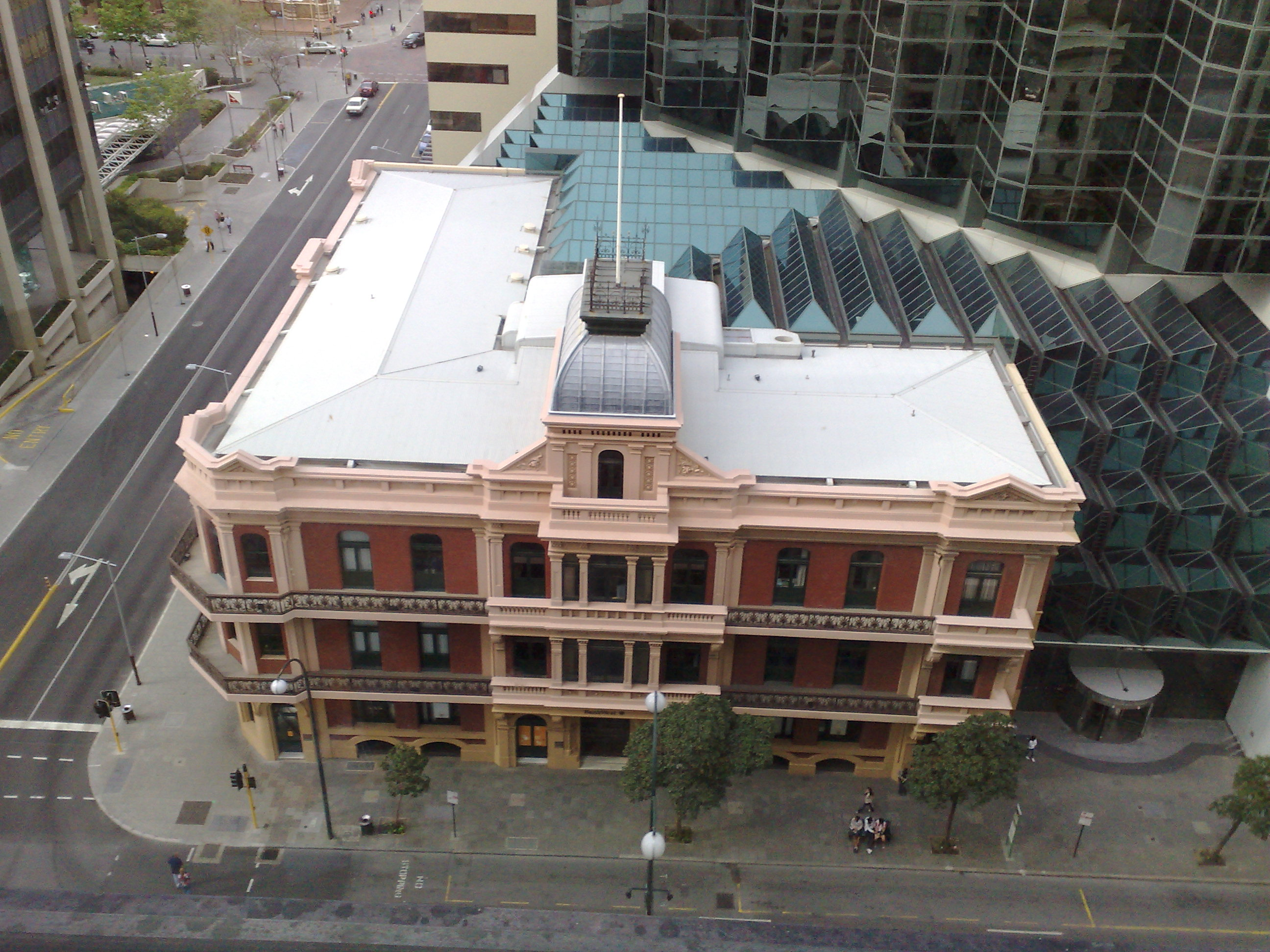 Photograph of Palace Hotel in Perth, Western Australia